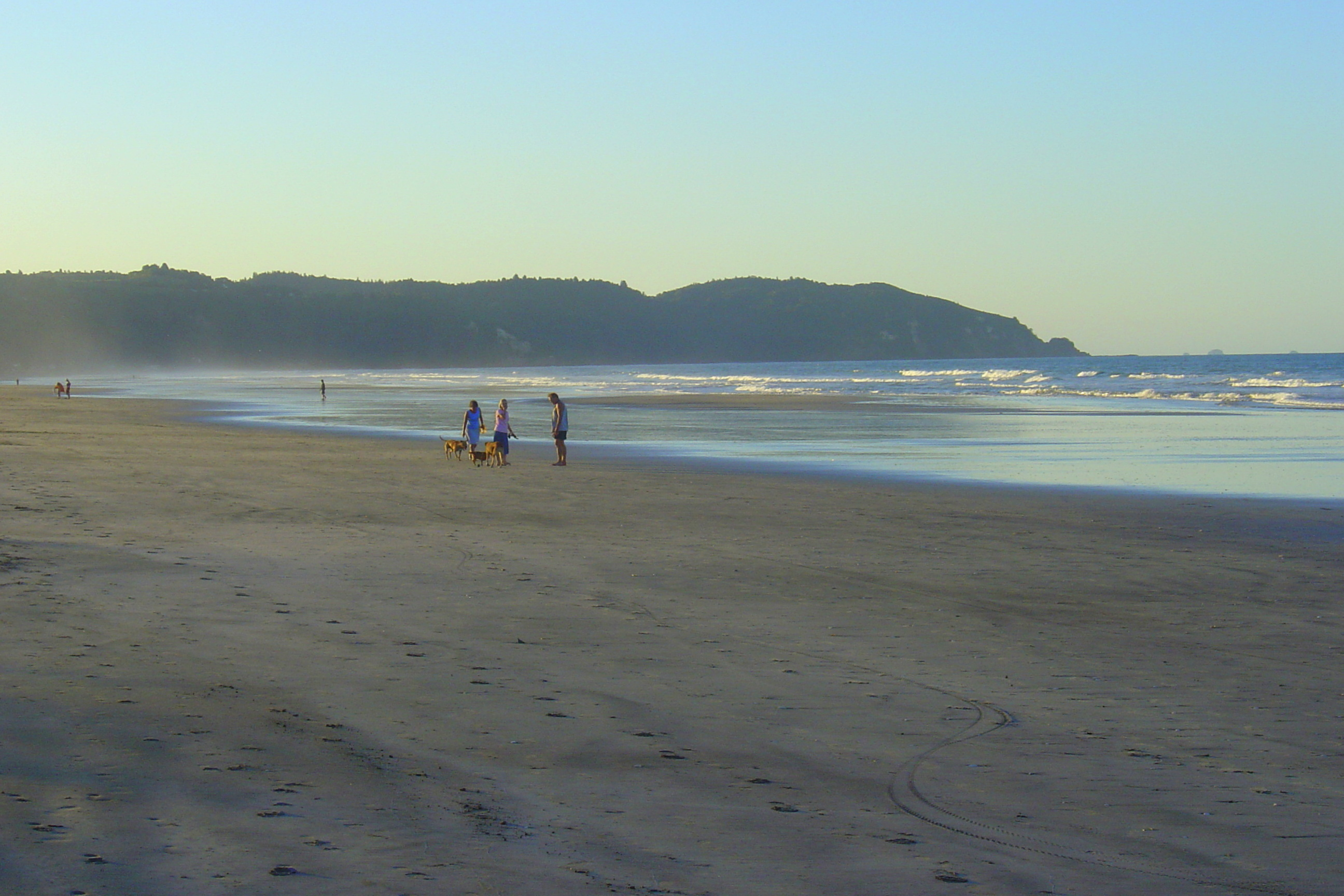 Early morning on Ohope Beach in summer